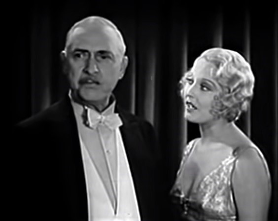 Emmett Corrigan & Thelma Todd in Corsair - cropped screenshot